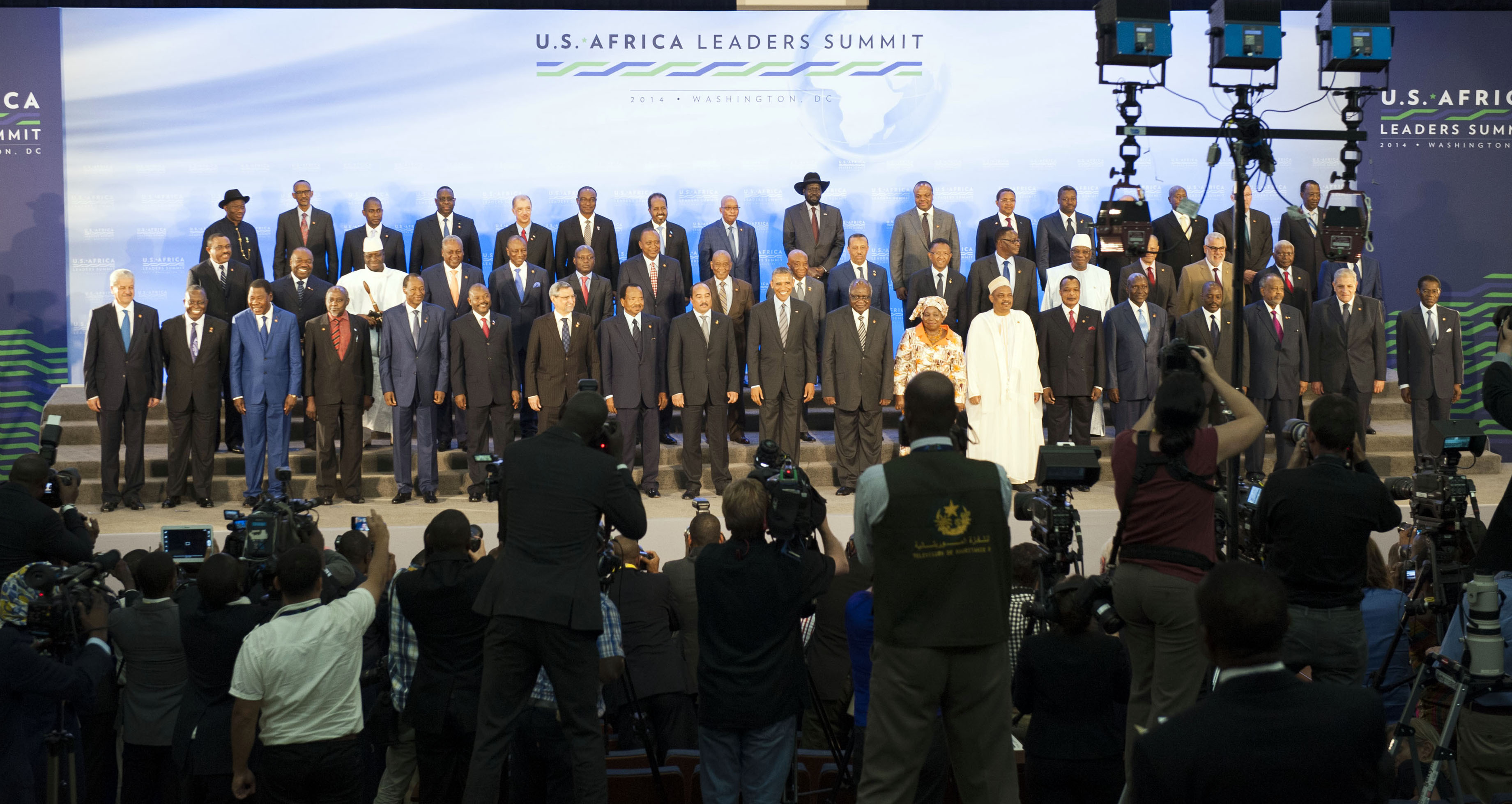 U.S. President Barack Obama participates in a family photo with African leaders on the final day of the U.S.-Africa Leaders Summit at the U.S. Department of State in Washington, D.C., on August 6, 2014. [State Department photo/ Public Domain]